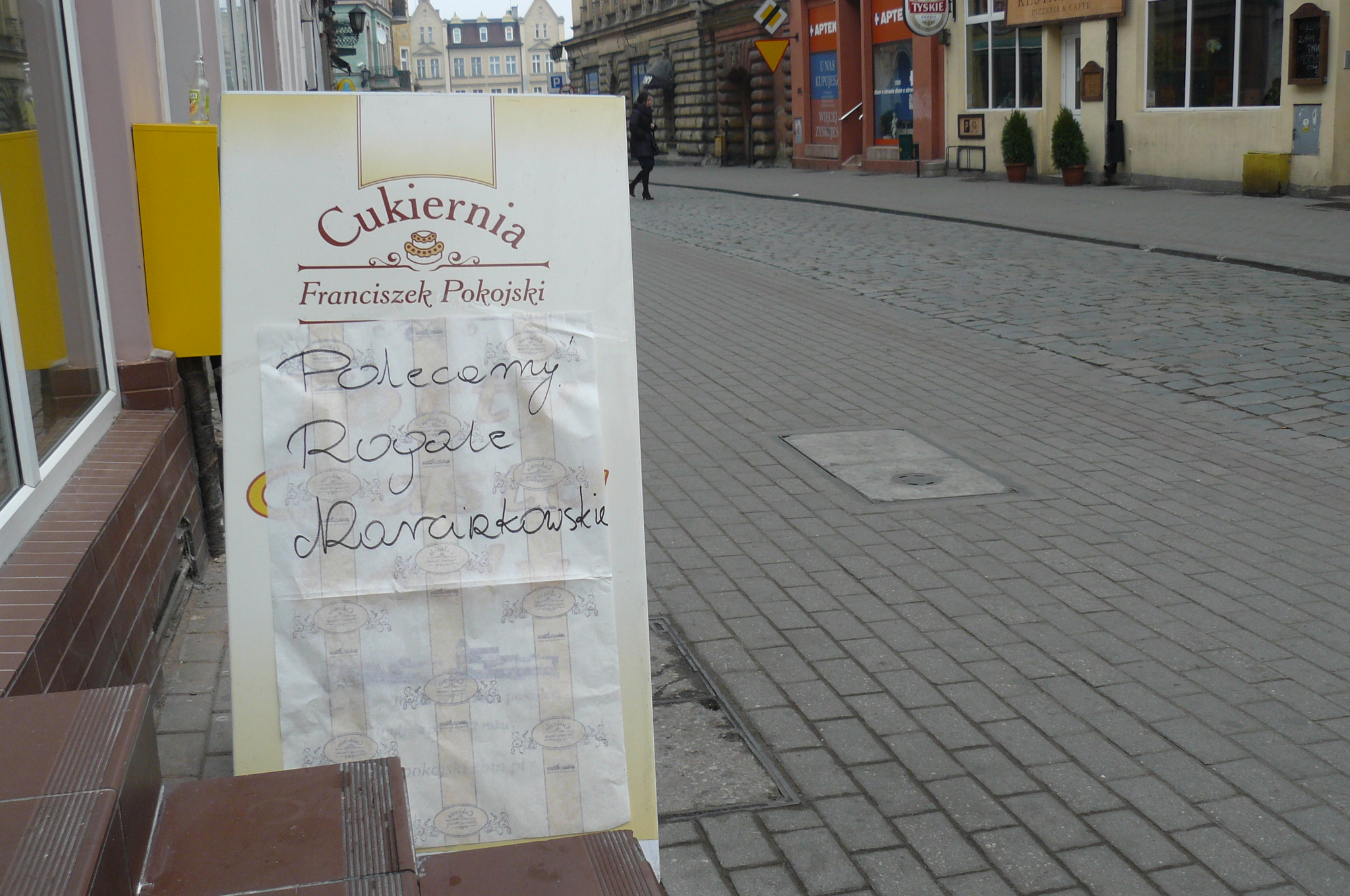 Rogal Saint Martin - a traditional dish of Poznań. In other parts of the Polish produced imitations. They must have a different name. Original name is protected. In Chełmża twirl called Marcinkowski.